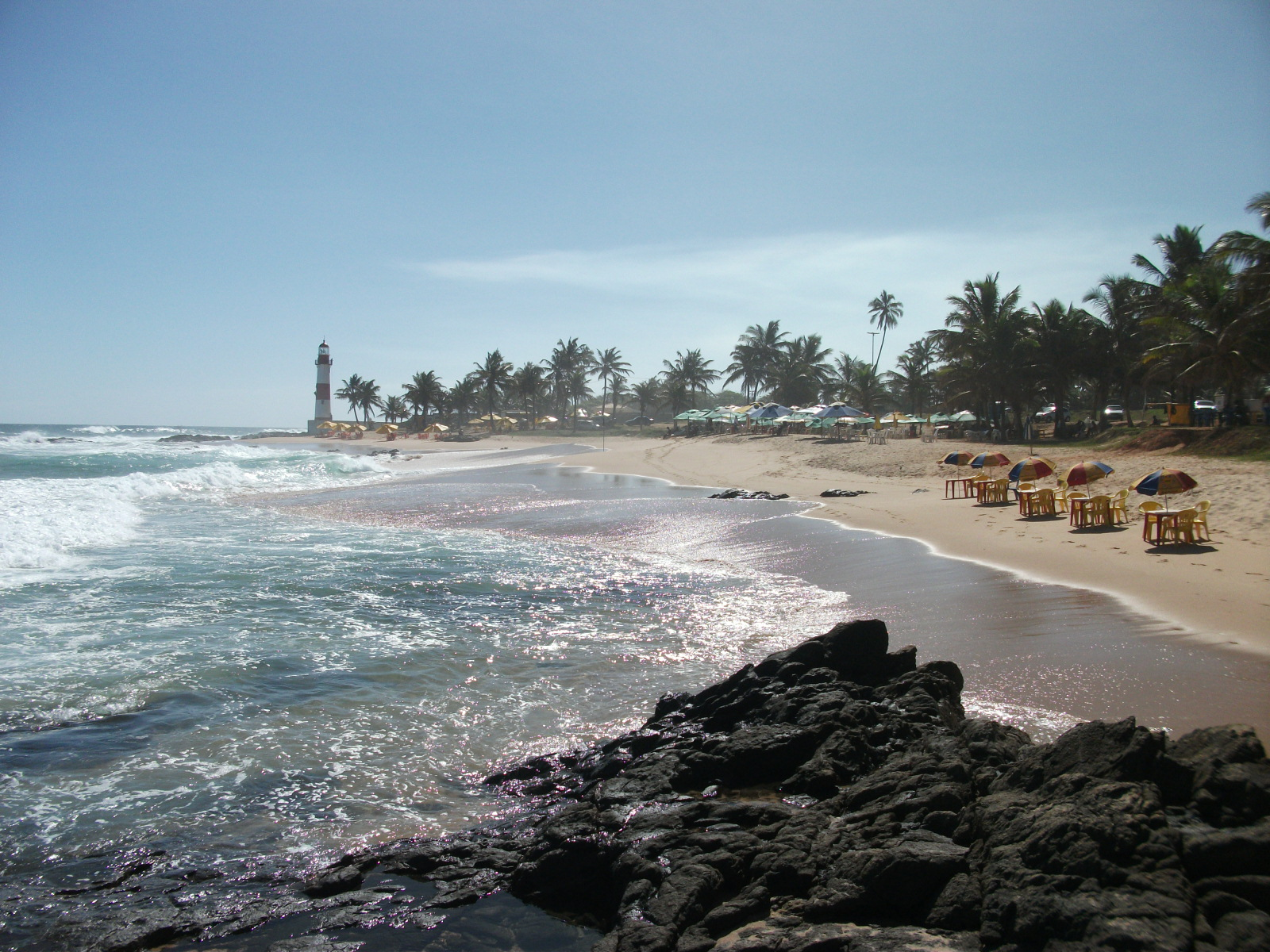 Lighthouse at Itapuã Beach in Salvador da Bahia, Brazil